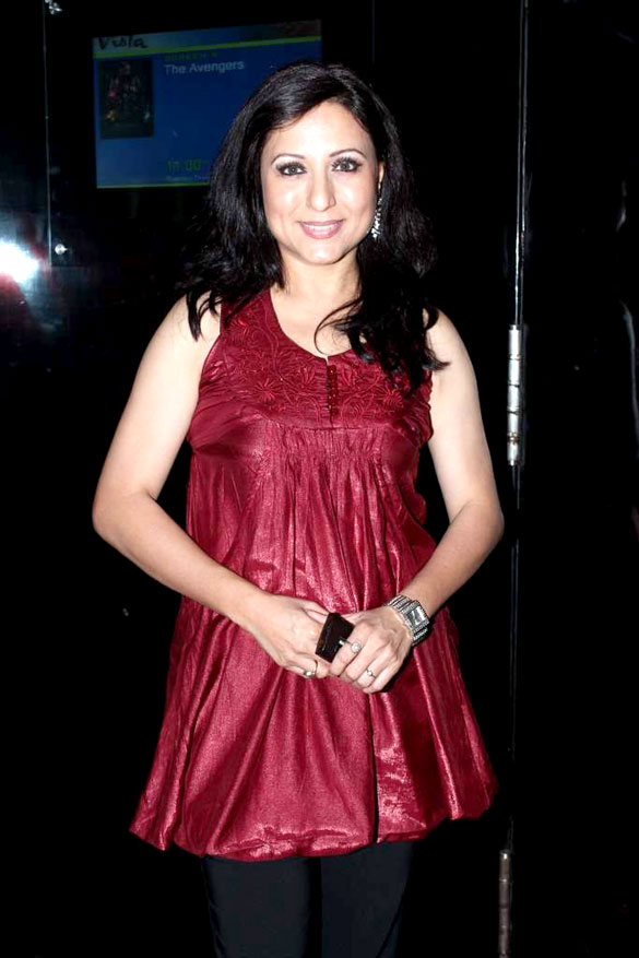 Kishori shahane ajita premiere